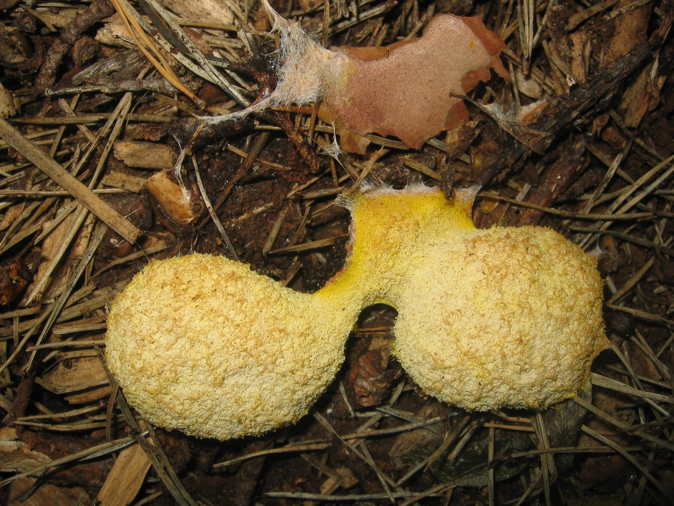 Slime mould (not longer yellow), Fuligo rufa, (Myxogastria)